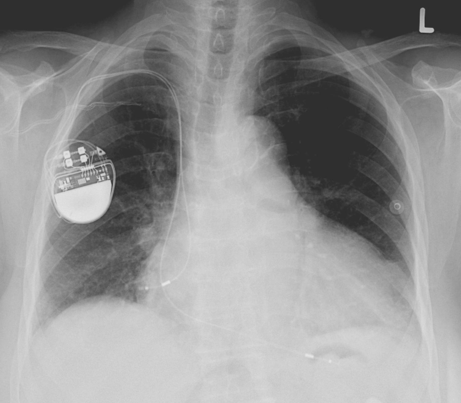 X-ray of the thorax with an pacemaker in situ.